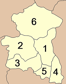 Map of Sing Buri province, Thailand, showing the Amphoe numbered. Mueang Sing Buri Bang Rachan Khai Bang Rachan Phrom Buri Tha Chang In Buri